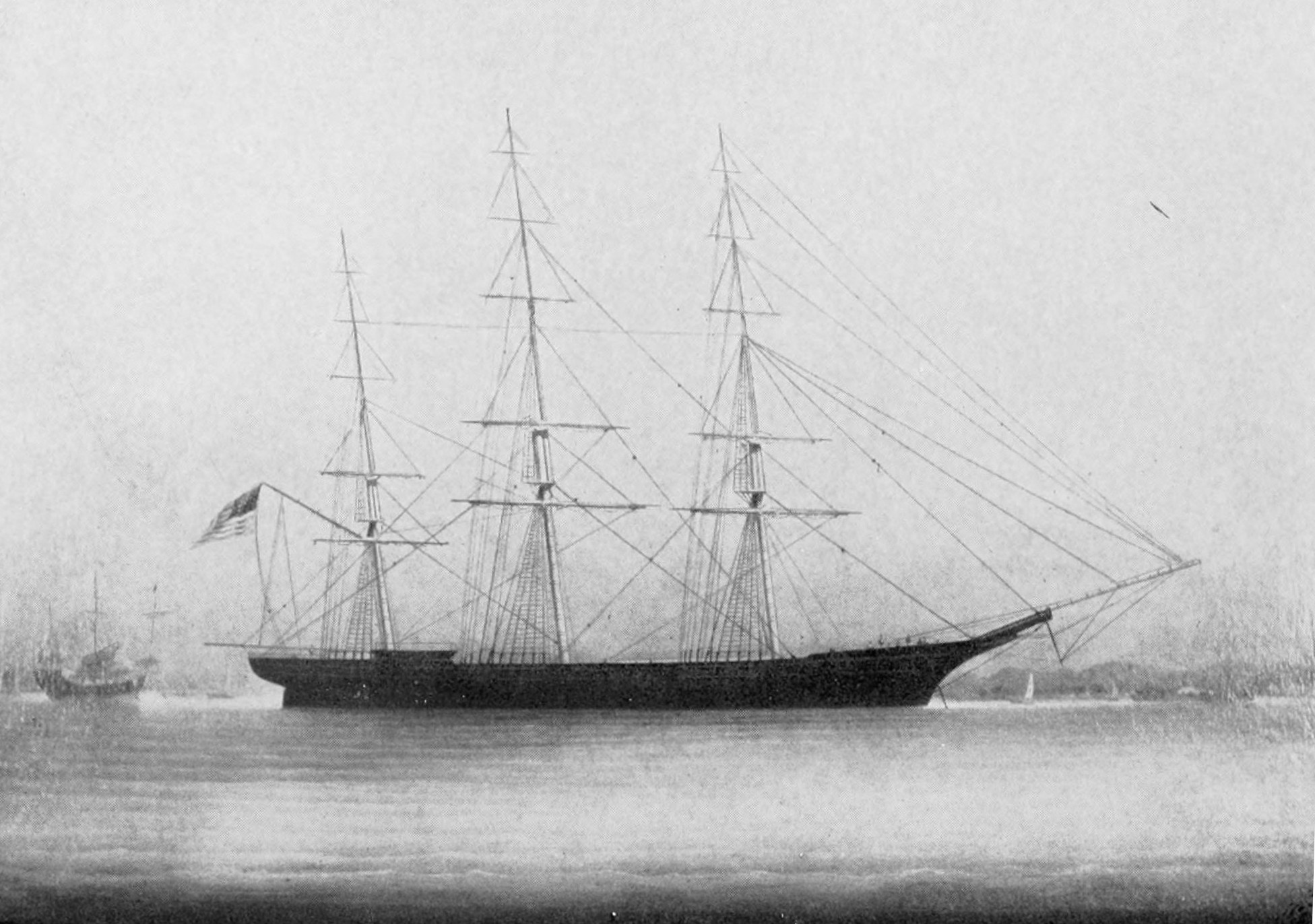 The clipper ship Gravina (860 tons), built in Hoboken, New Jersey in 1853 by Isaac C. Smith & Son.